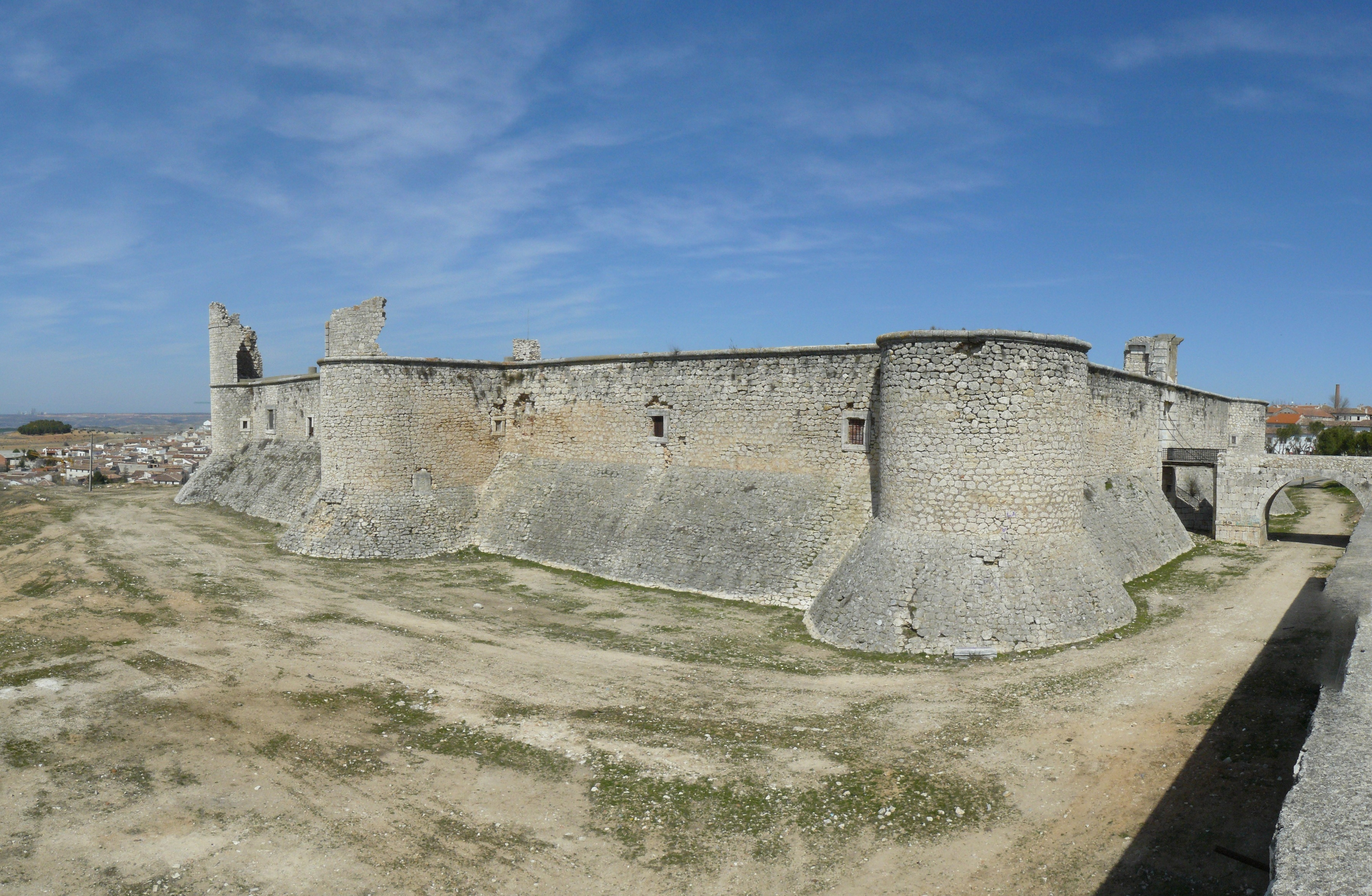 View of Castle at Chinchón (Madrid, Spain).